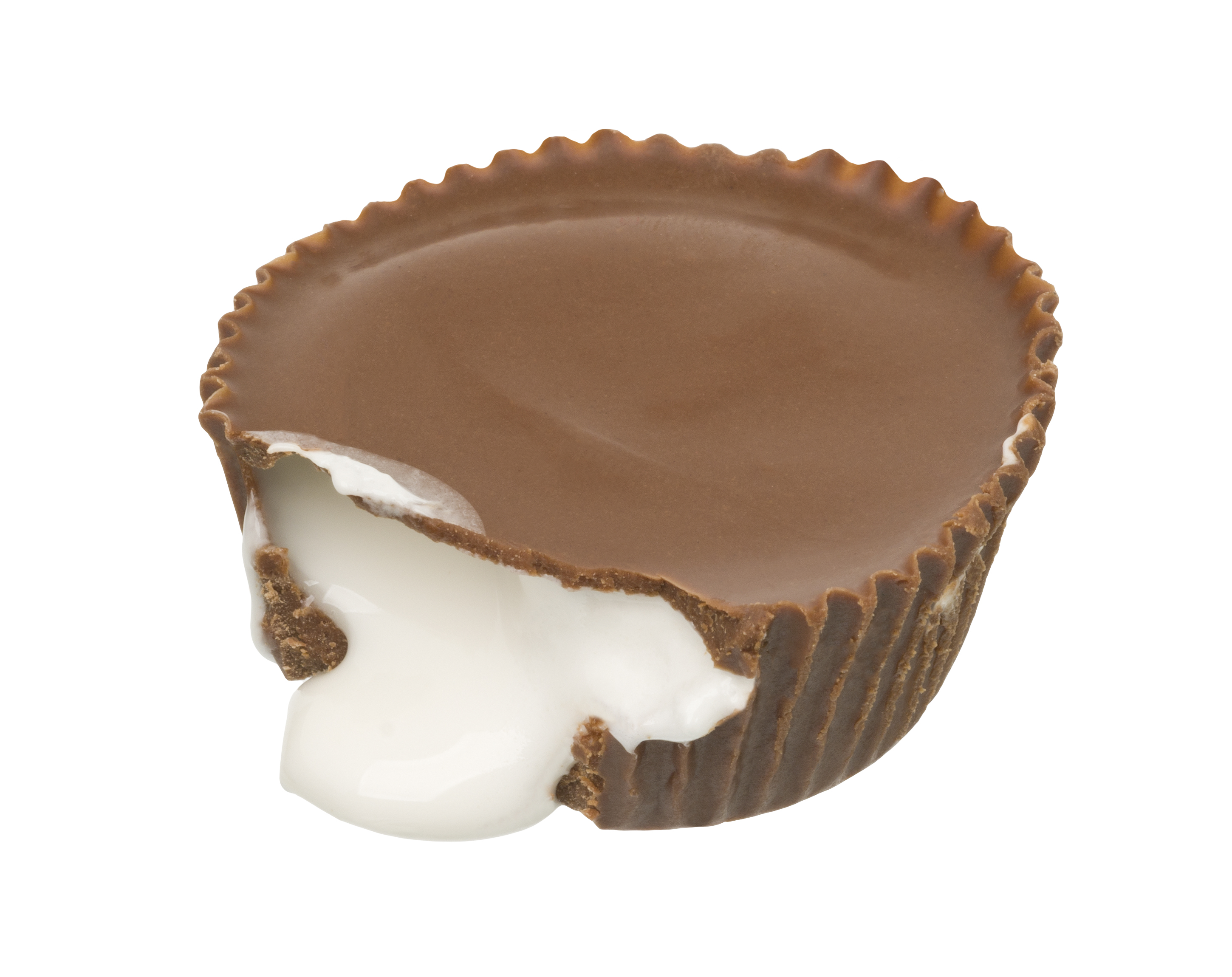 A Sifer's Valomilk that has been partially split open. This is an American candy sold largely in the Midwest, which is a large chocolate cup filled with a gooey marshmallow center.